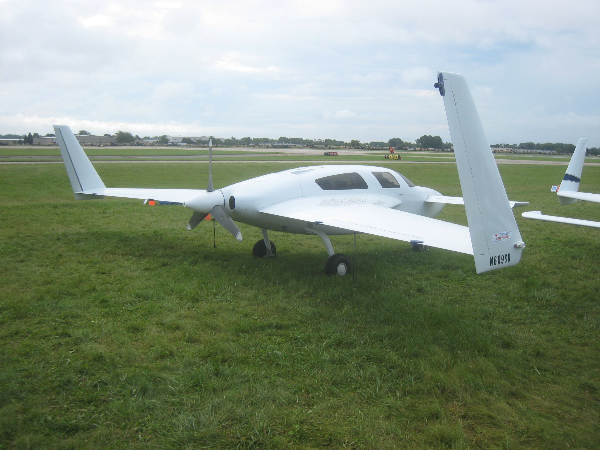 Velocity XLRG